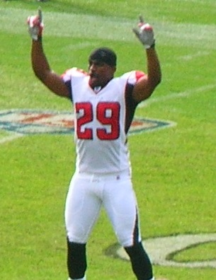 The Atlanta Falcons doing stretches on the field prior to a road game against the Oakland Raiders. The Falcons won 24-0.